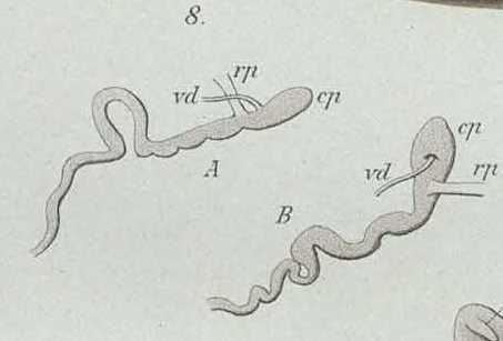 Limax conemenosi Simroth, 1891, Limacidae, Pulmonata, Gastropoda,"Korax" mountain, Sterea Ellada, Greece. From: Simroth, H. 1889. Die von Herrn E. v. Oertzen in Griechenland gesammelten Nacktschnecken. - Abhandlungen der Senckenbergischen Naturforschenden Gesellschaft 16: 3-27, pl.1, fig.2.